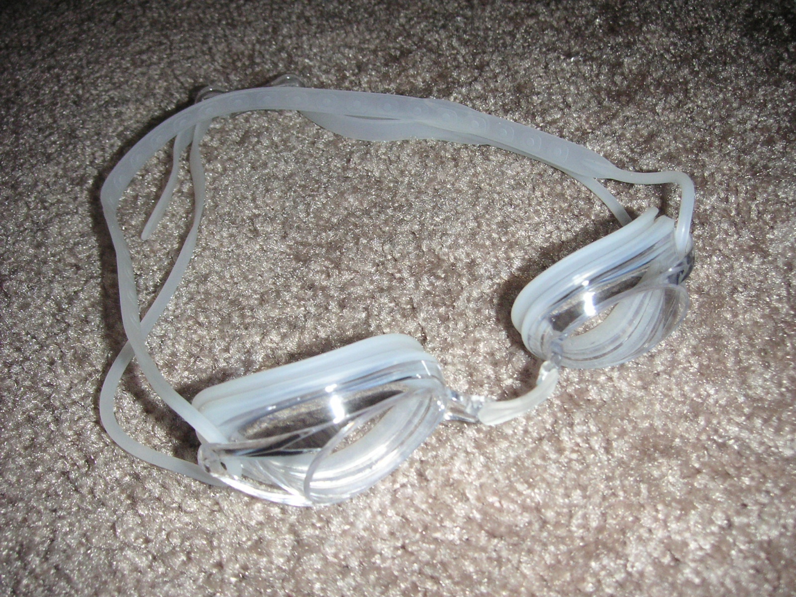 Nike Remora II swim goggles